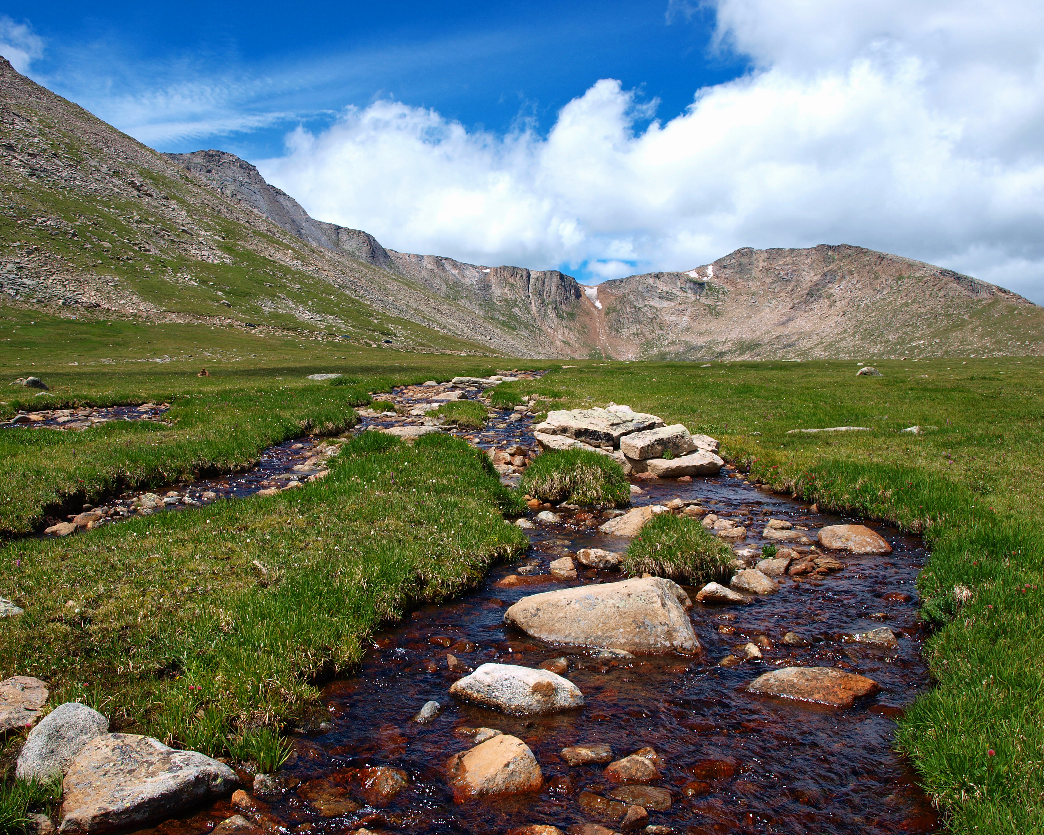 Alpine Environment